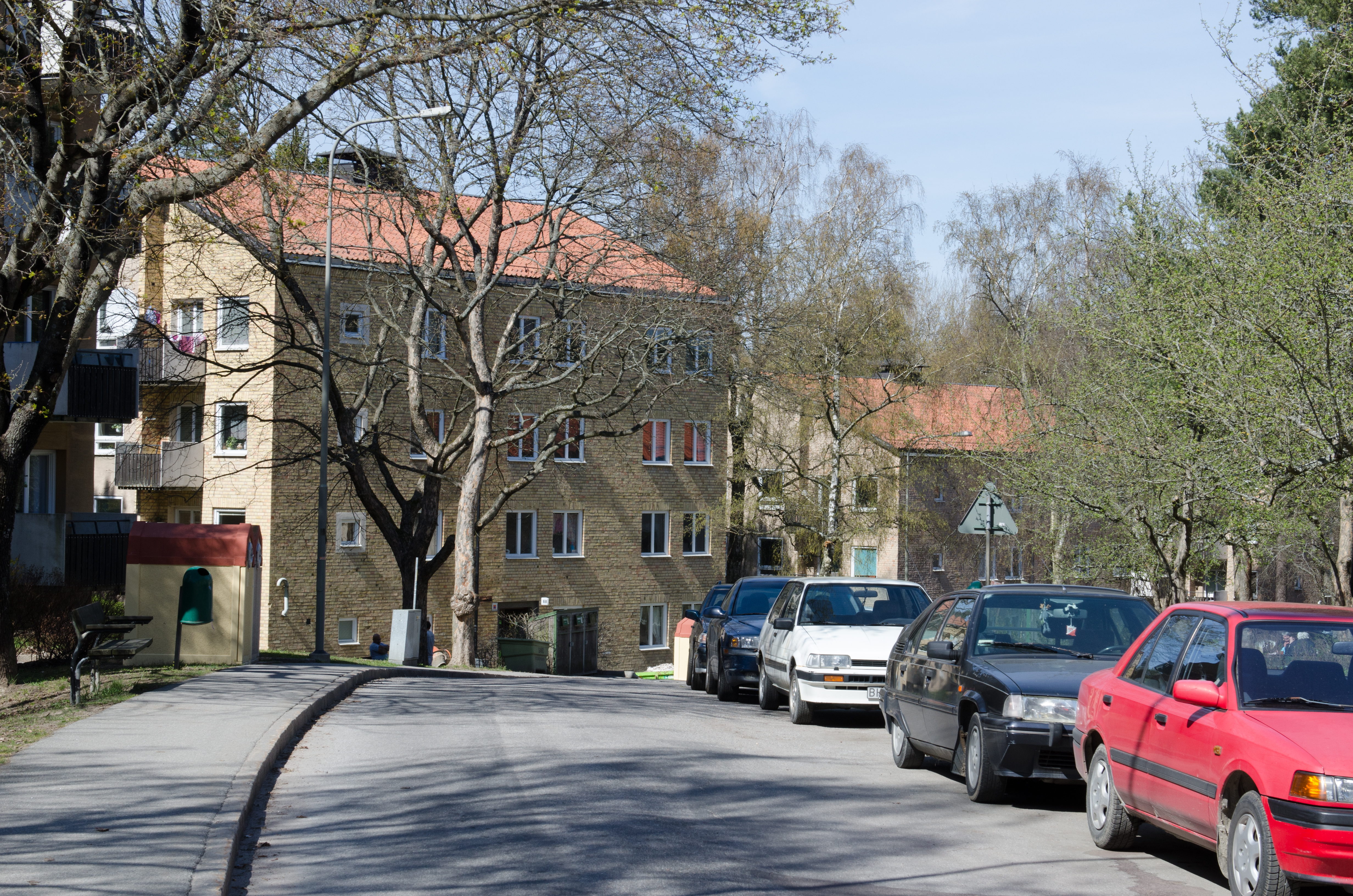 Hauptvägsområdet in Hökarängen, built 1949-50. Architect: Sten Lindegren, Bengt Gate och Stig Ancker.